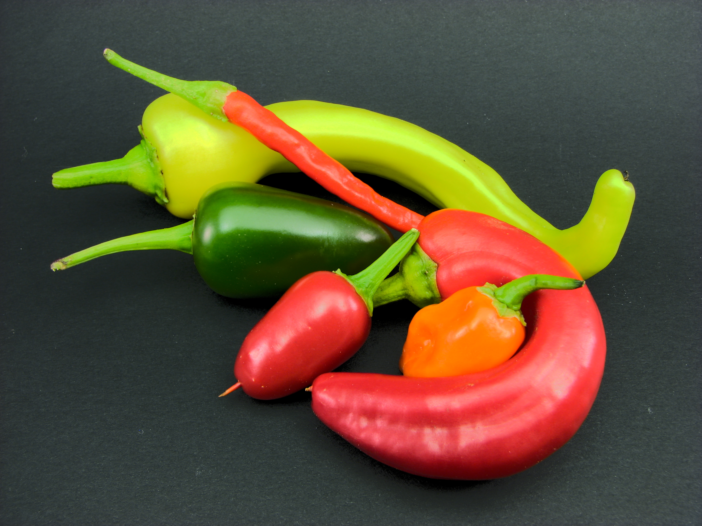 An arrangement of jalapeño, banana, cayenne pepper, chili, and habanero peppers. Attribute to Ryan Bushby